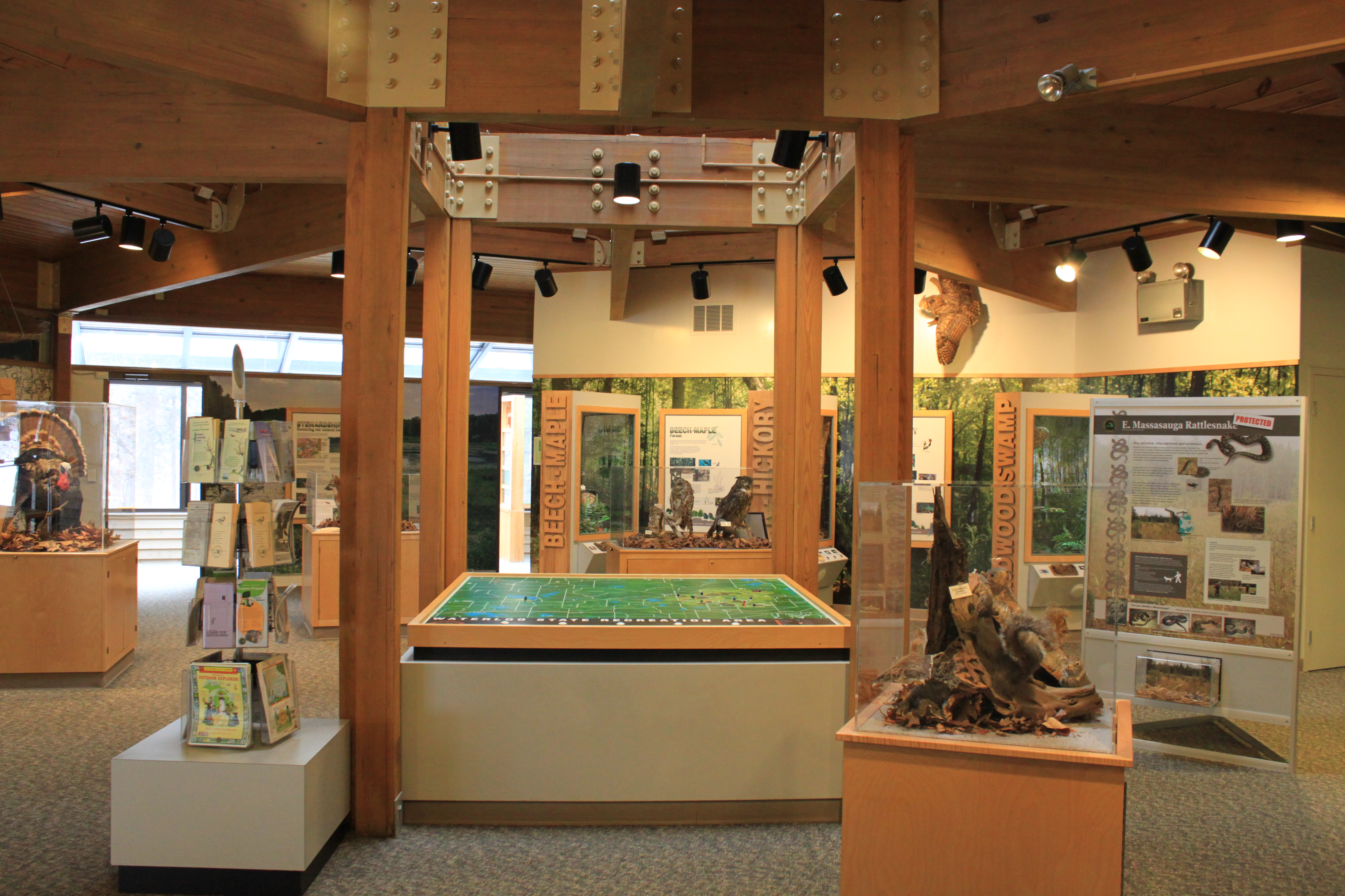 Exhibits at the Gerald E. Eddy Discovery Center in the Waterloo State Recreation Area, 17030 Bush Road, Chelsea, Michigan.